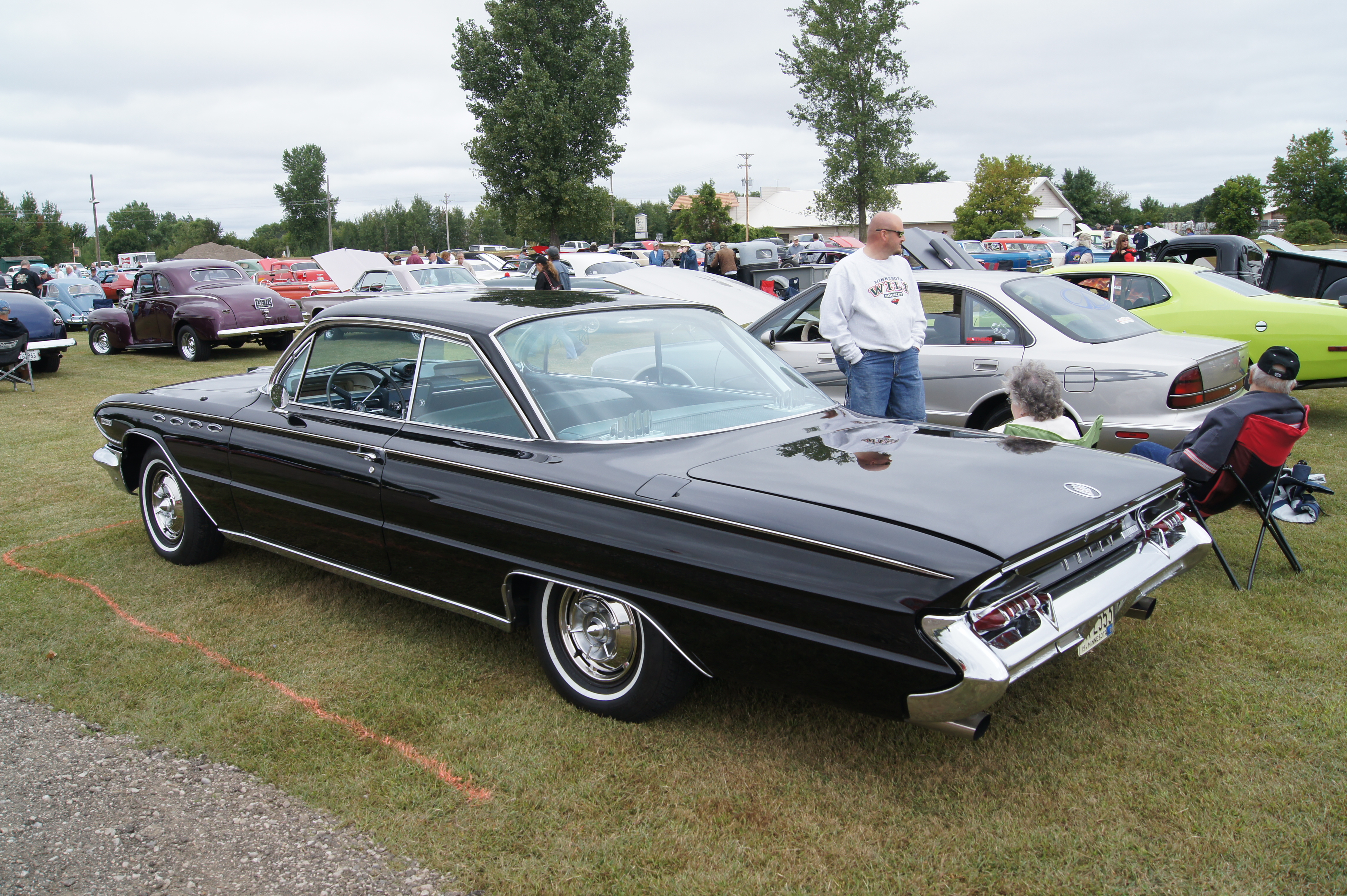 North Star Chapter Studebaker Drivers Club 13th Annual Labor Day Car Show September 2, 2013 Blacksmith Lounge Hugo, MN